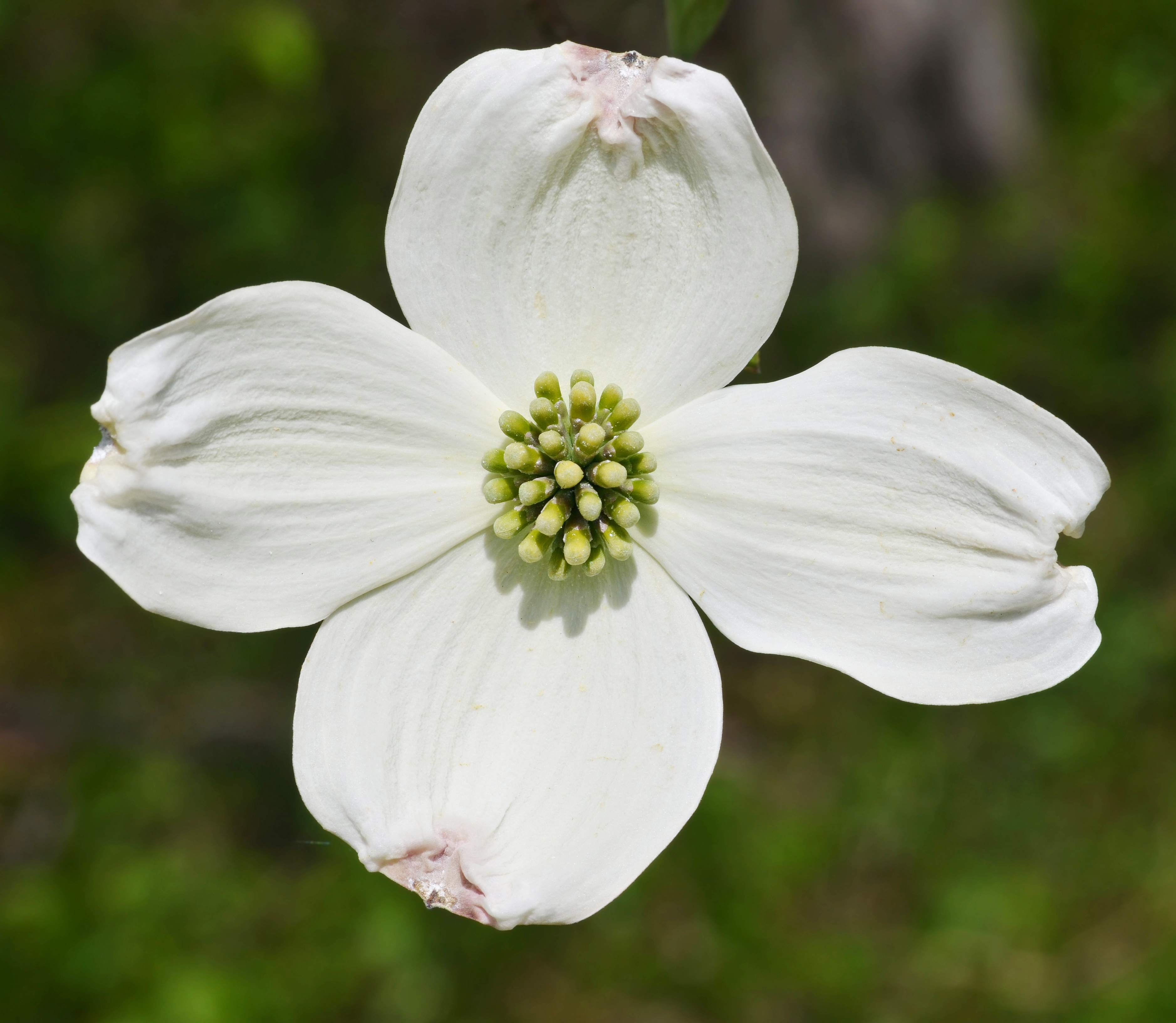 Photograph of a flower on a Flowering Dogwood (Cornus florida). Photo taken at the Tyler Arboretum where it was identified under accession #N-005-003.